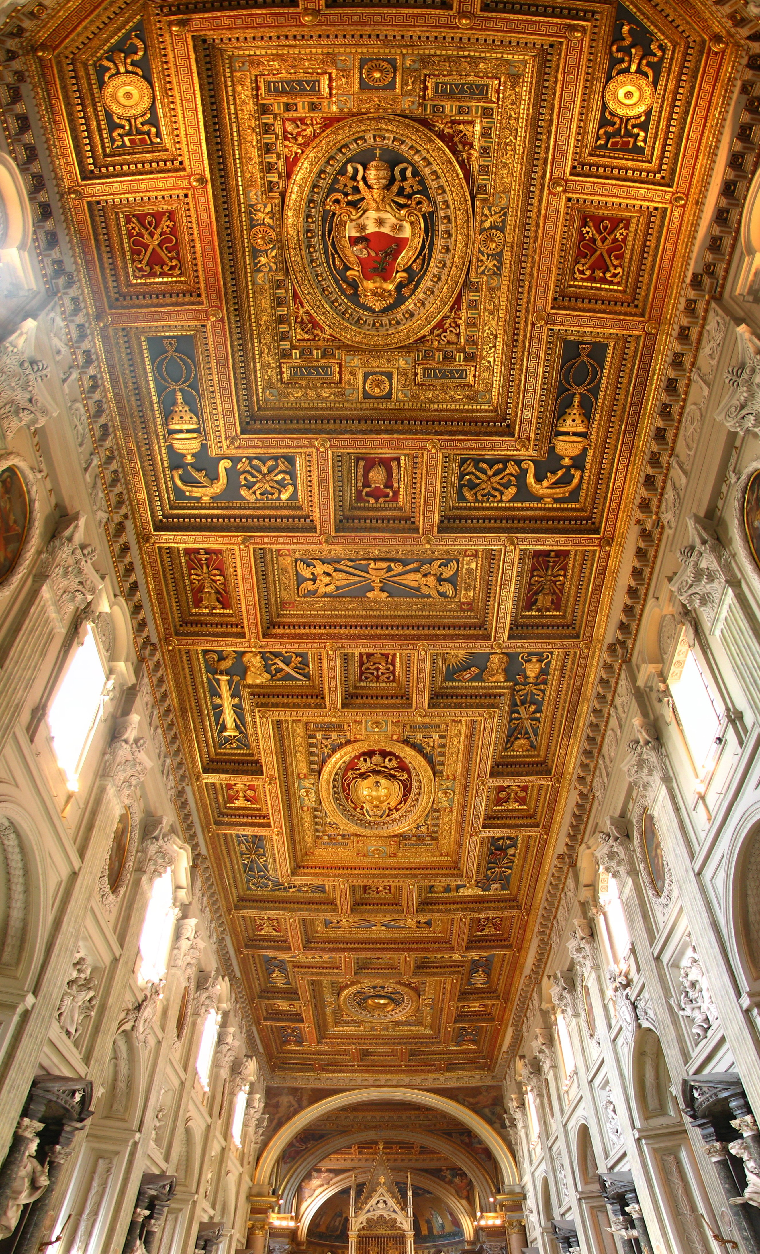 The decorated ceiling of the Basilica of St. John Lateran in Rome, Italy.